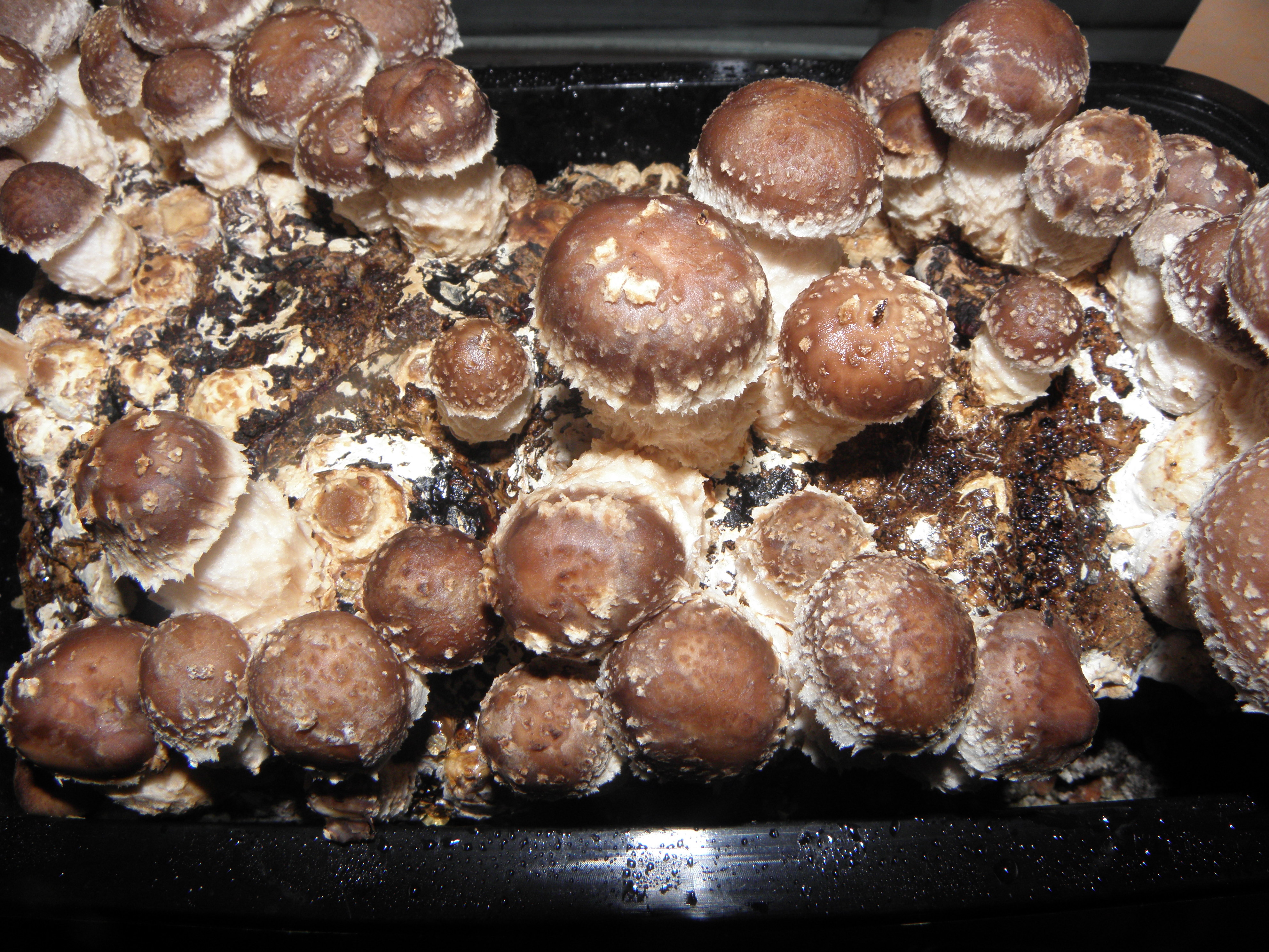 ShiitakeLatina: Lentinula edodes